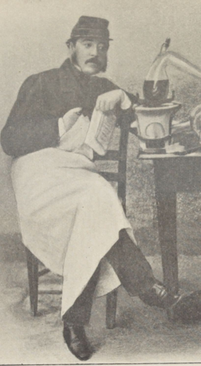 François-Zacharie Roussin